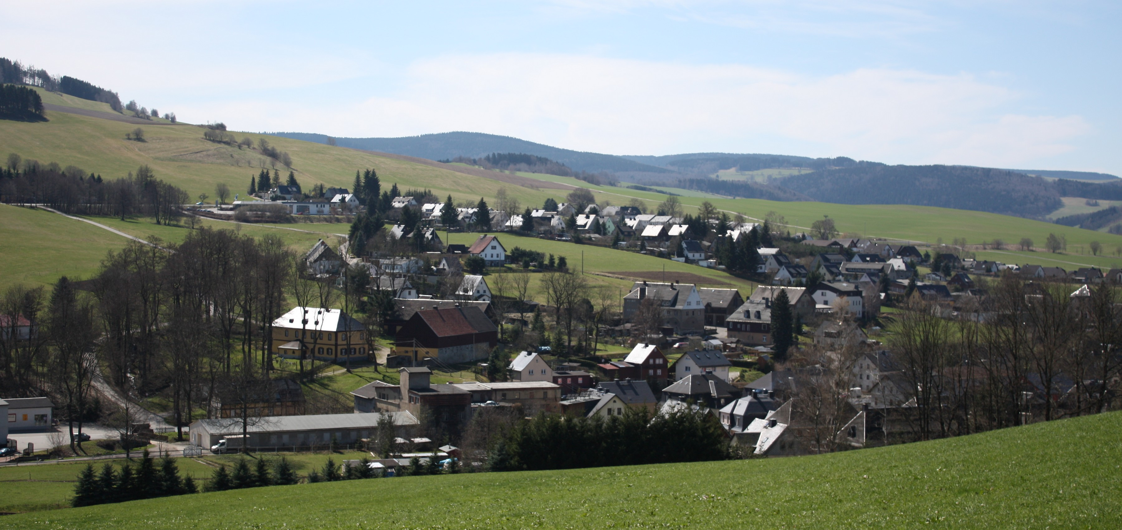 Raschau-Markersbach, Pöckelgut, surroundings.